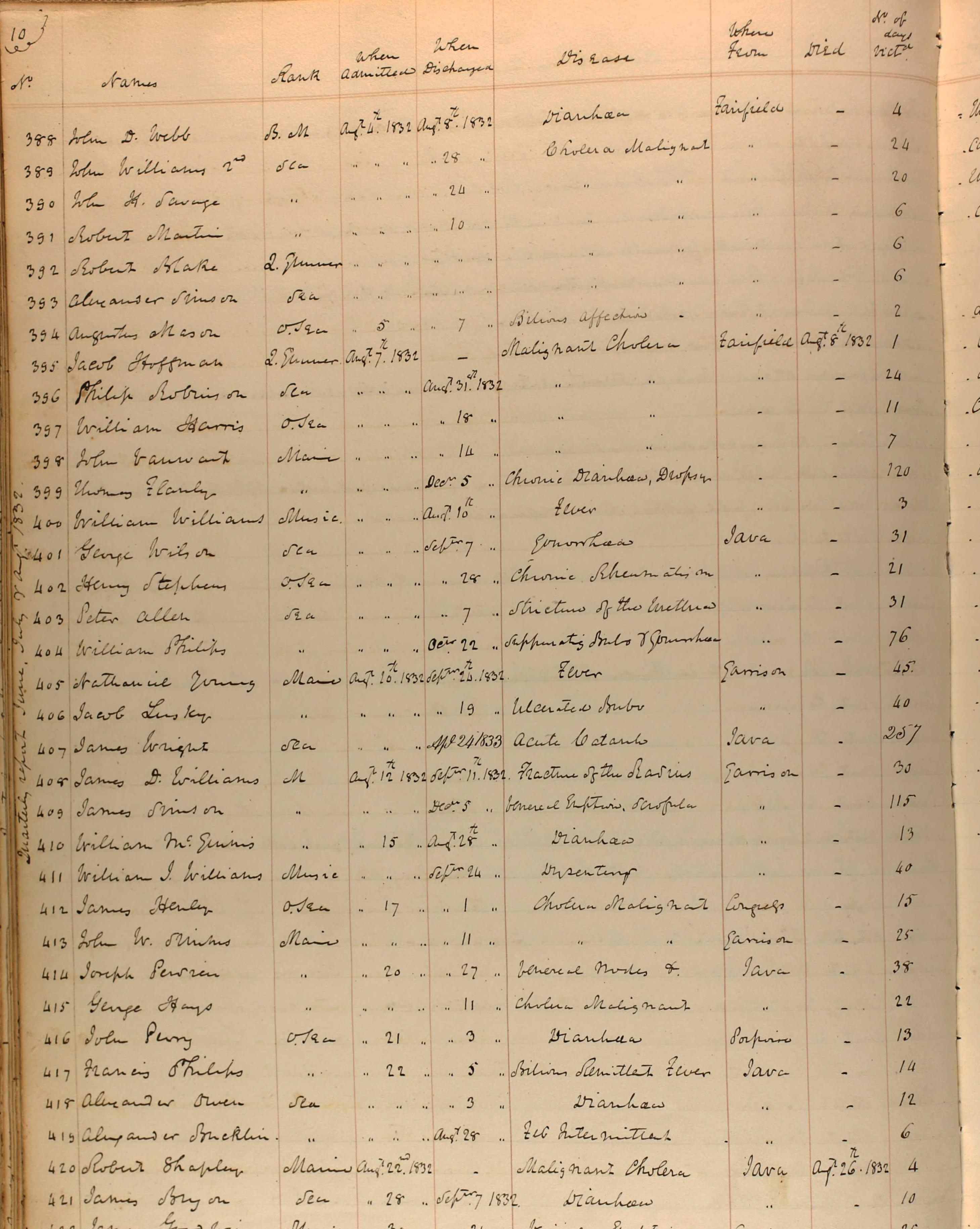 This register contains entries made at Gosport Naval Hospital in August of 1832. Some of the first patients were sailors from the USS Fairfield, USS Java and the Gosport Navy Yard U.S.Marine garrison